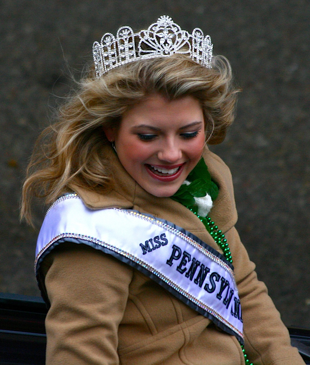 Kelsie Sinagra, Miss Pennsylvania Teen USA 2007, in a St Patricks Day 2007 parade